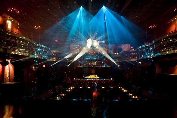 Webster Hall's Grand Ballroom